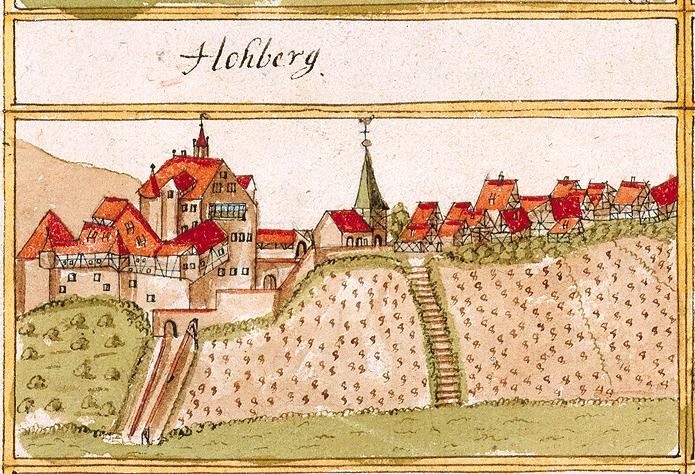 View of Hochberg, Remseck am Neckar, from the forest register books created by Andreas Kieser